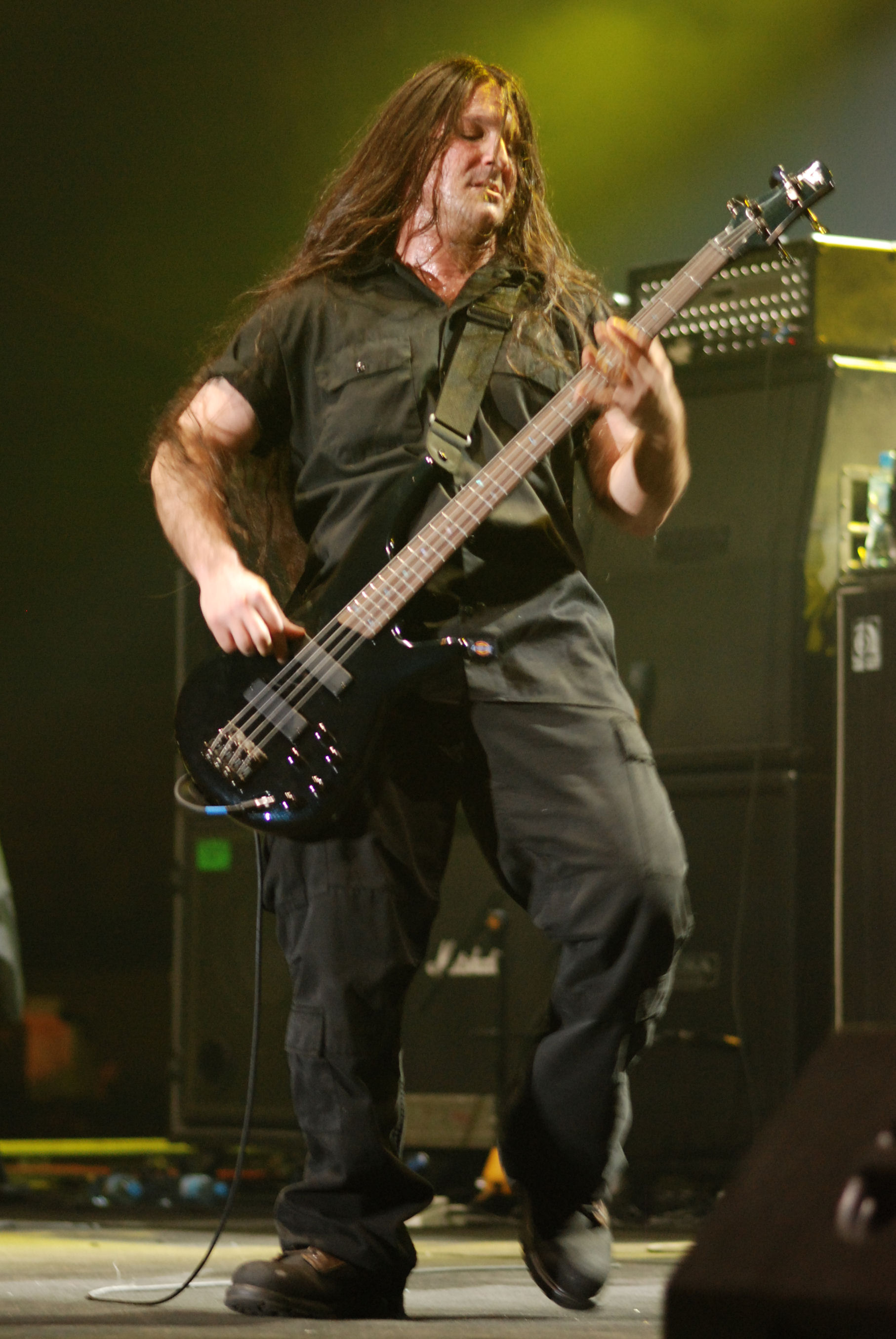 Ross_Dolan from Immolation during Metalmania 2008 festival